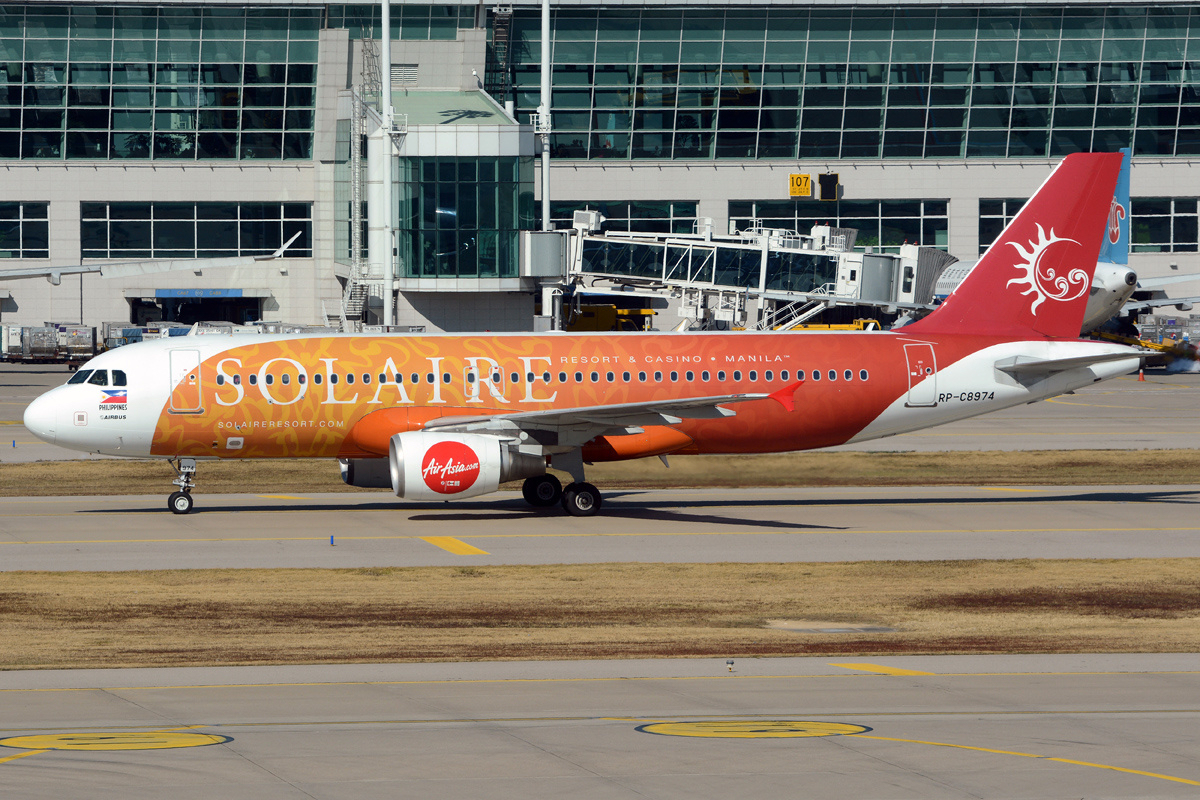 AirAsia Zest Airbus A320 "Solaire Resort and Casino" logojet